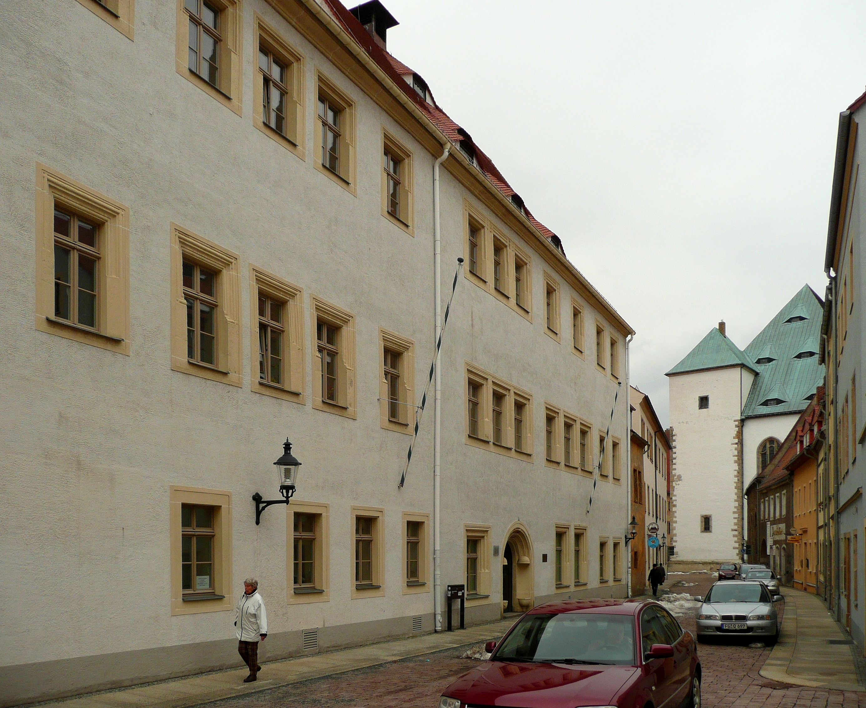 Freiberg: saxon board of mines.